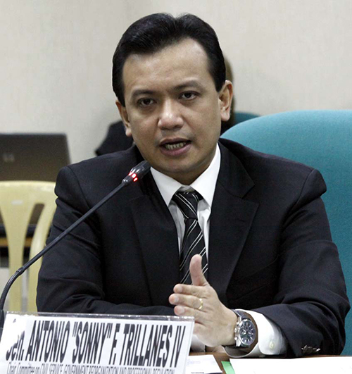 Senator Antonio Trillanes IV, chair of the Senate Committee on Civil Service, Government Reorganization and Professional Regulation, discusses with officials from the Departments of Budget and Management, Finance, National Defense, and Interior and Local Government a proposed measure providing for a Cost of Living Allowance (COLA) amounting to P5,000 to all government employees during a public hearing on Wednesday, September 2.